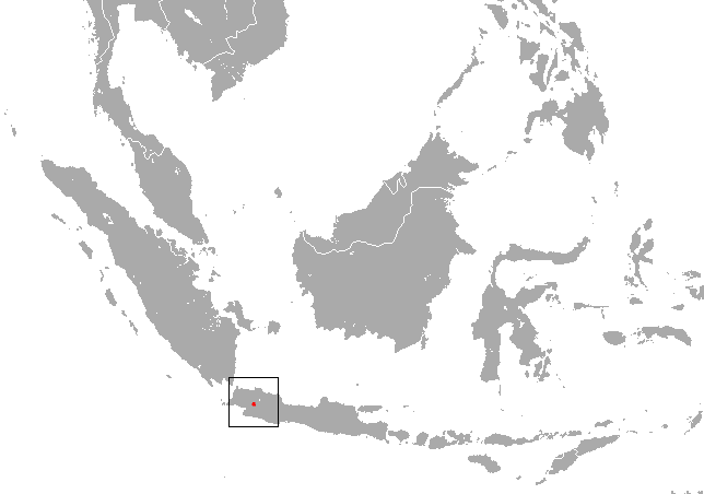 Oriental Shrew (Crocidura orientalis) range